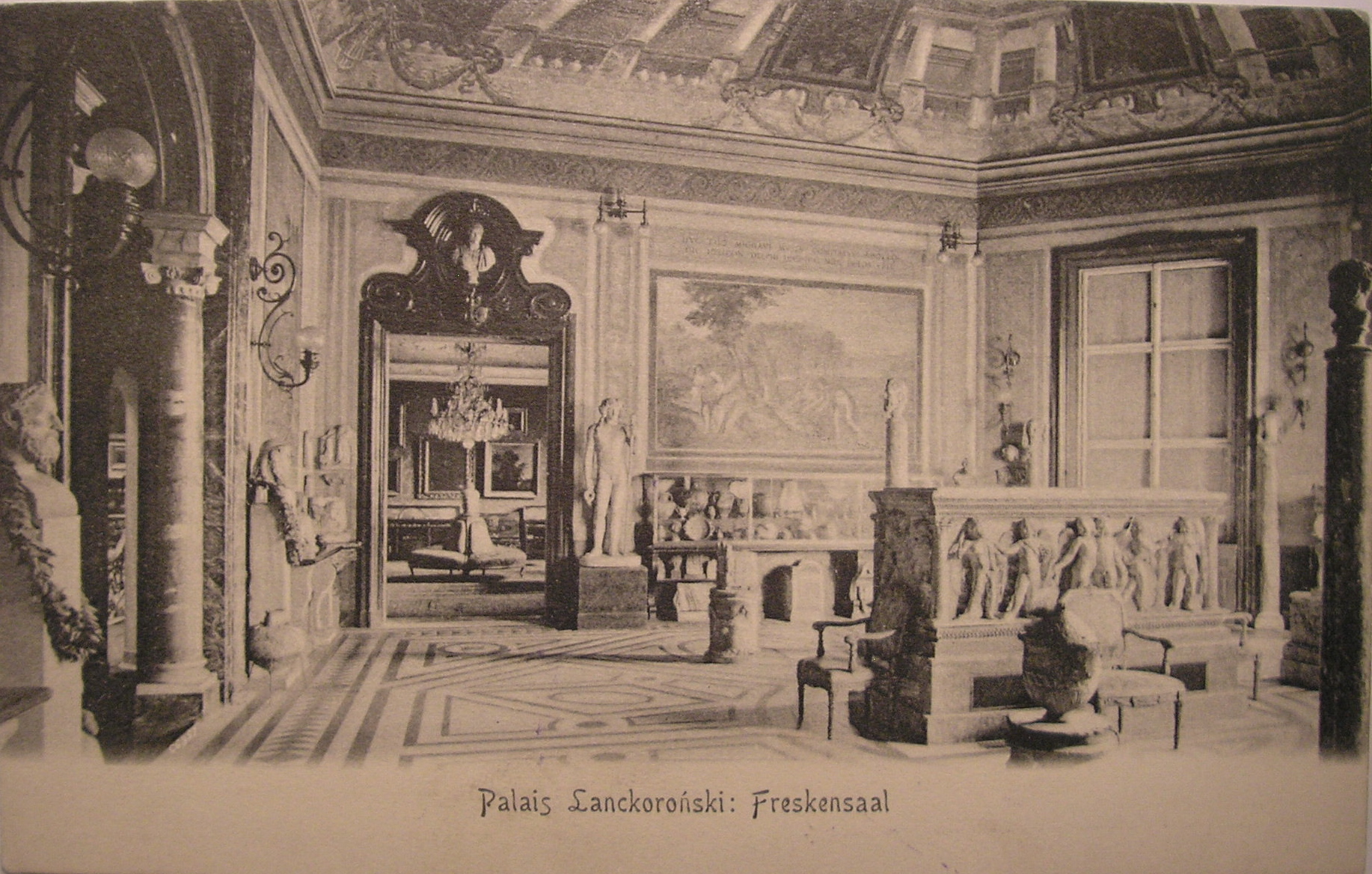 Image of the Palais Lanckoroński in Vienna, which was the private residence of Count Lanckoroński and his vast art collection, which was open to the public. The image is part of a post-card series that were made specifically for the building and its collection.